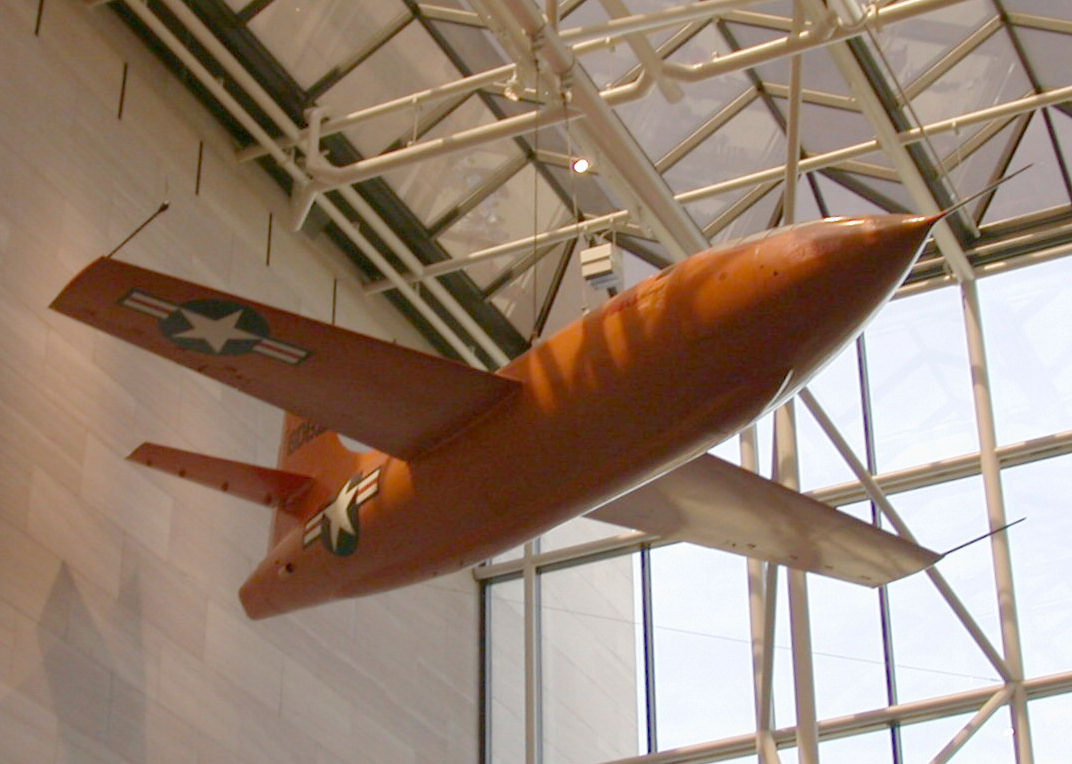 Bell X-1 rocket plane at the Smithsonian